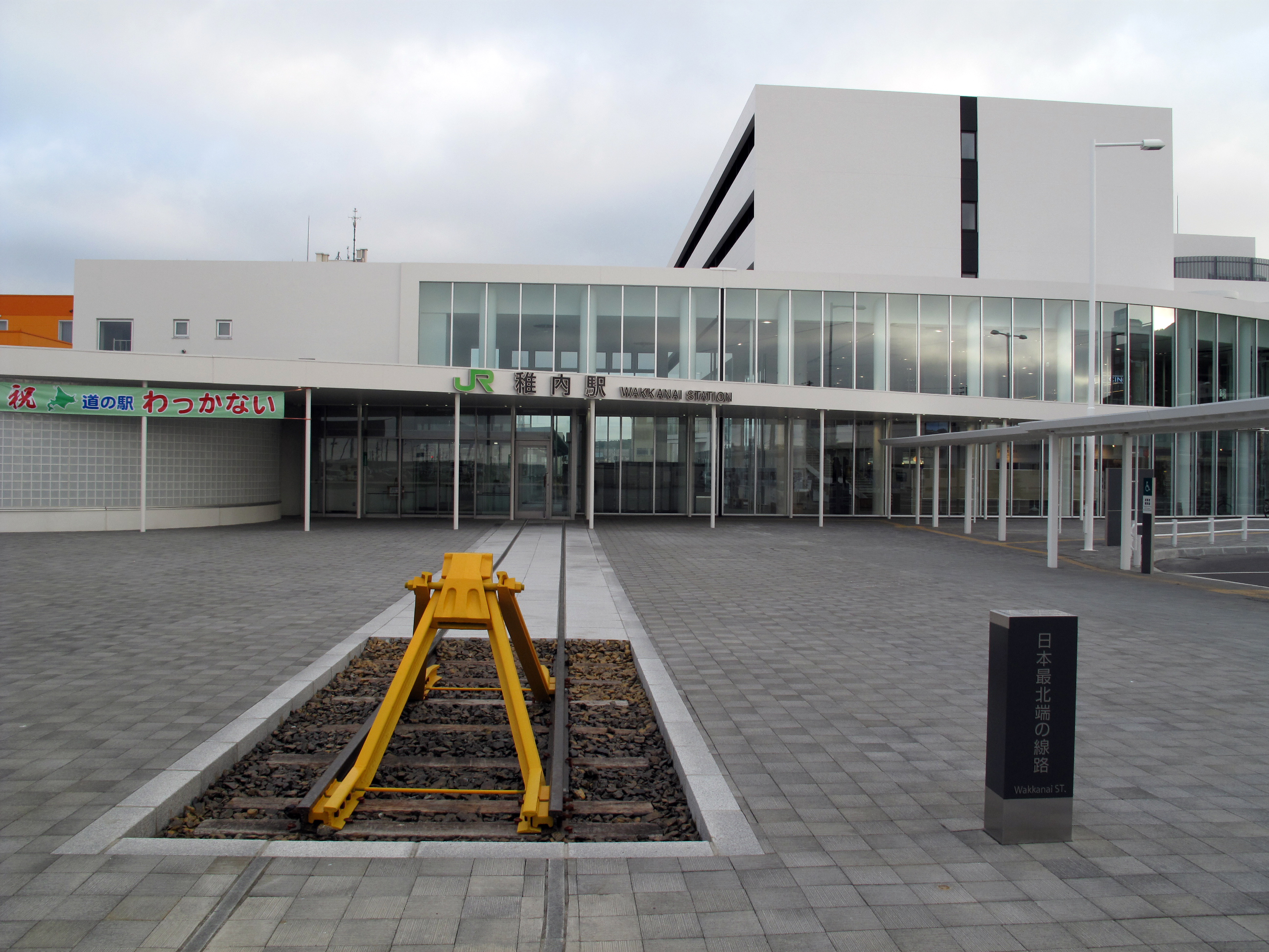 The new Wakkanai Station building